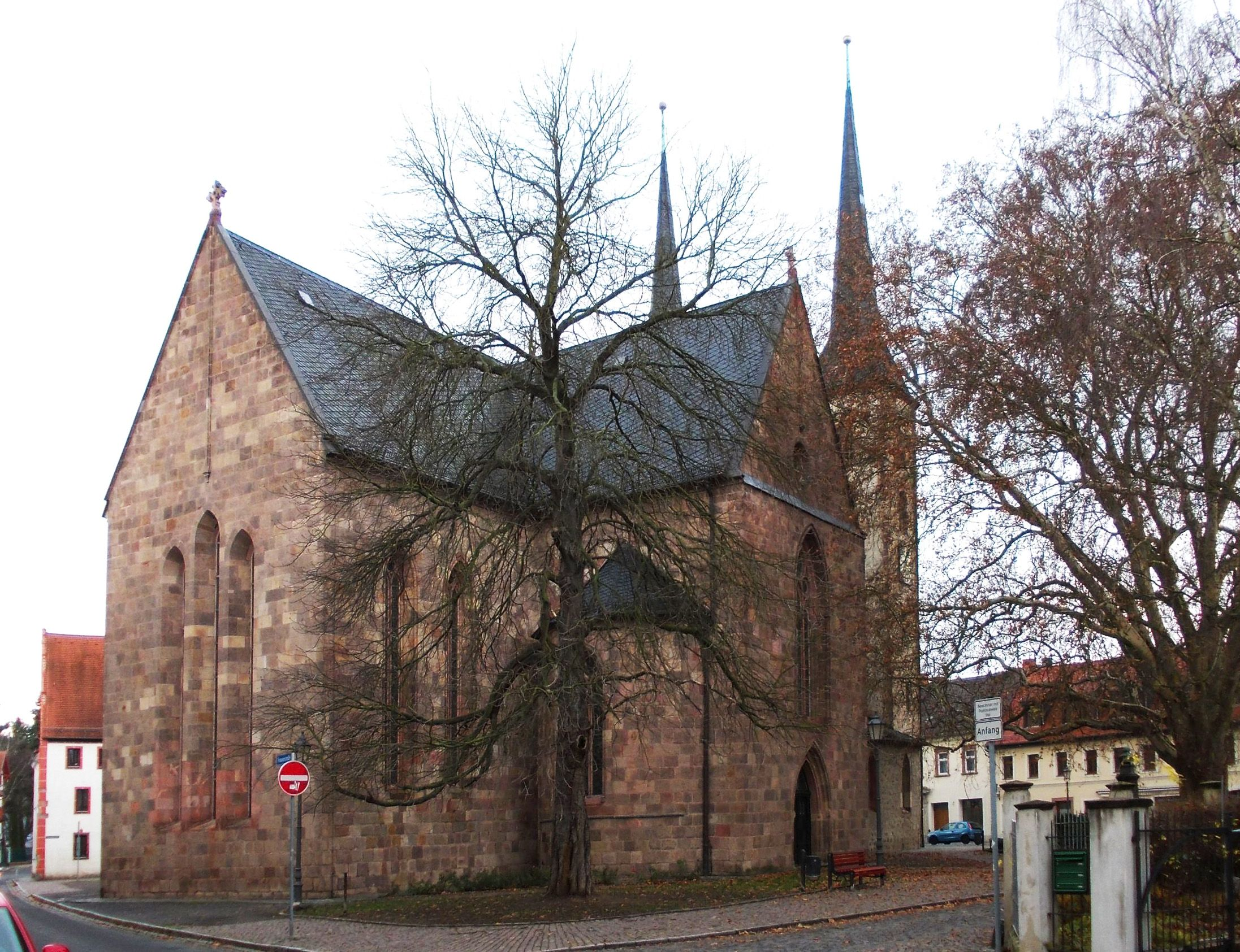 Our Lady's Church in Grimma (Leipzig district, Saxony)